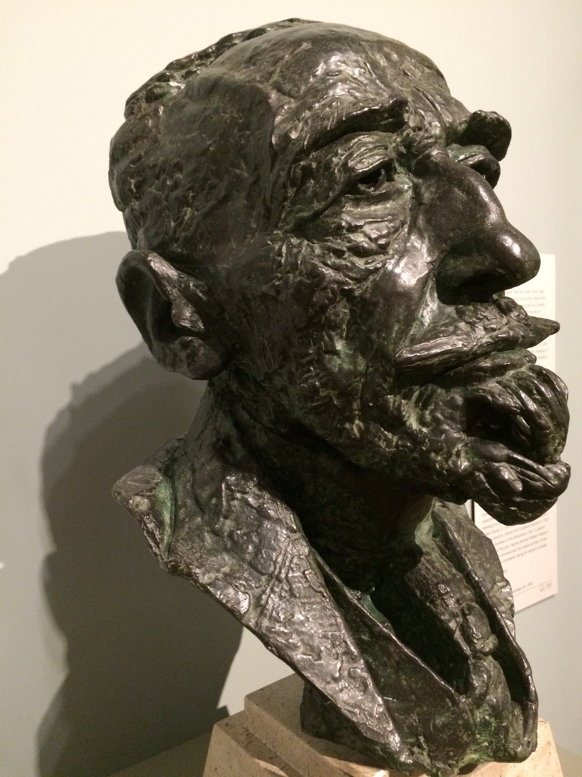 Bust of Joseph Conrad, by Jacob Epstein, 1924, at National Portrait Gallery, London